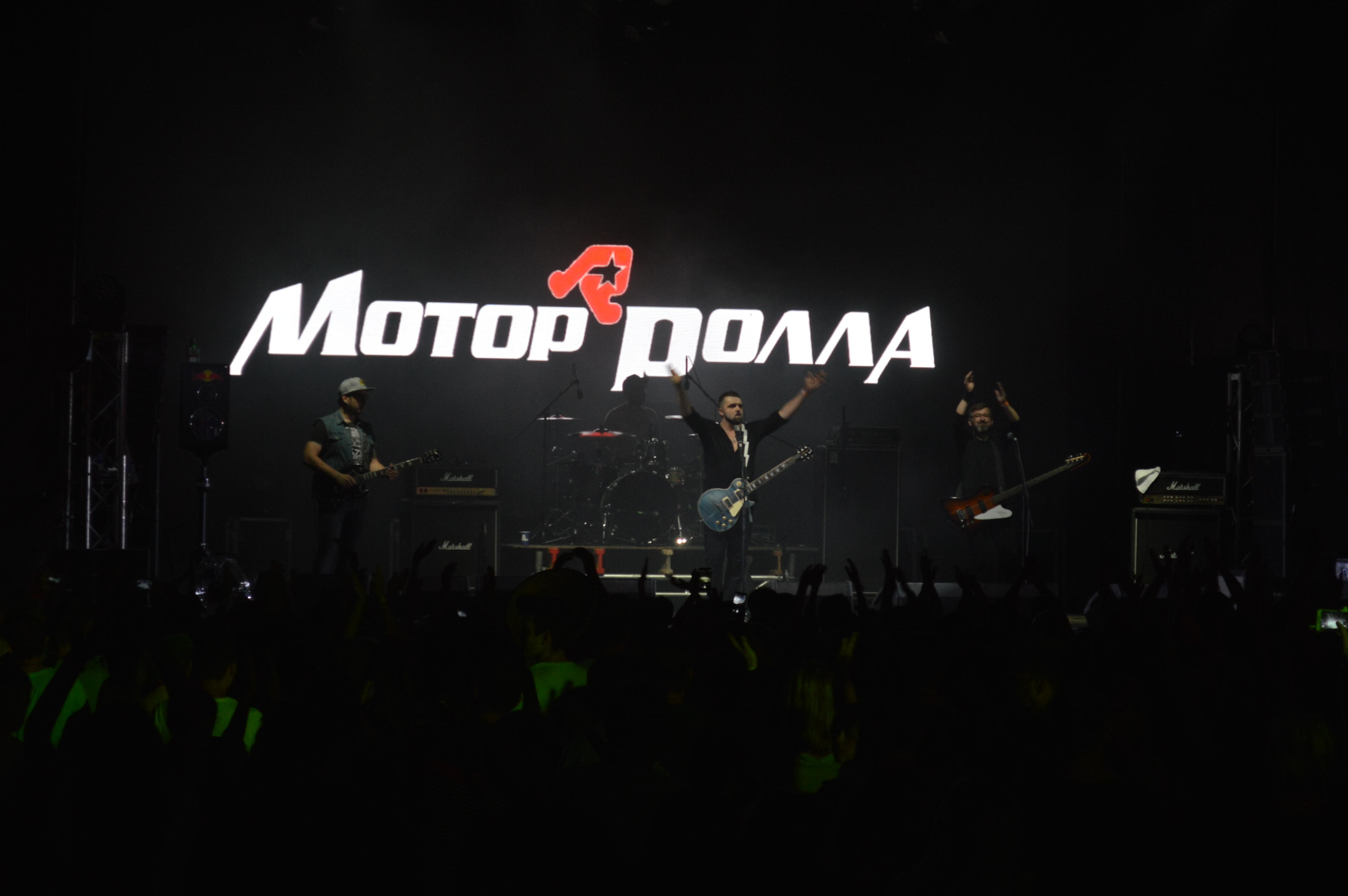 Ukrainian band Мотор'ролла (Motor'rolla) at the 2018 MRPL City Festival